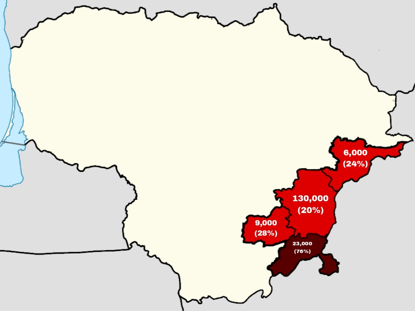 Lithuanian municipalities with Polish minority exceeding 10% of the total population